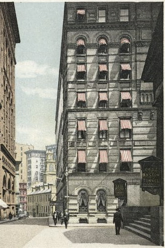 Detail of: Young's Hotel, Ames Building, from Court Street, Boston, Mass. Medium: Offset photomechanical prints Item/Page/Plate: DPC# 10619 Source: Detroit Publishing Company postcards / 10000 Series Source Description: prints (postcards) Location: New York Public Library, Stephen A. Schwarzman Building / Photography Collection, Miriam and Ira D. Wallach Division of Art, Prints and Photographs Catalog Call Number: MFY 95-29